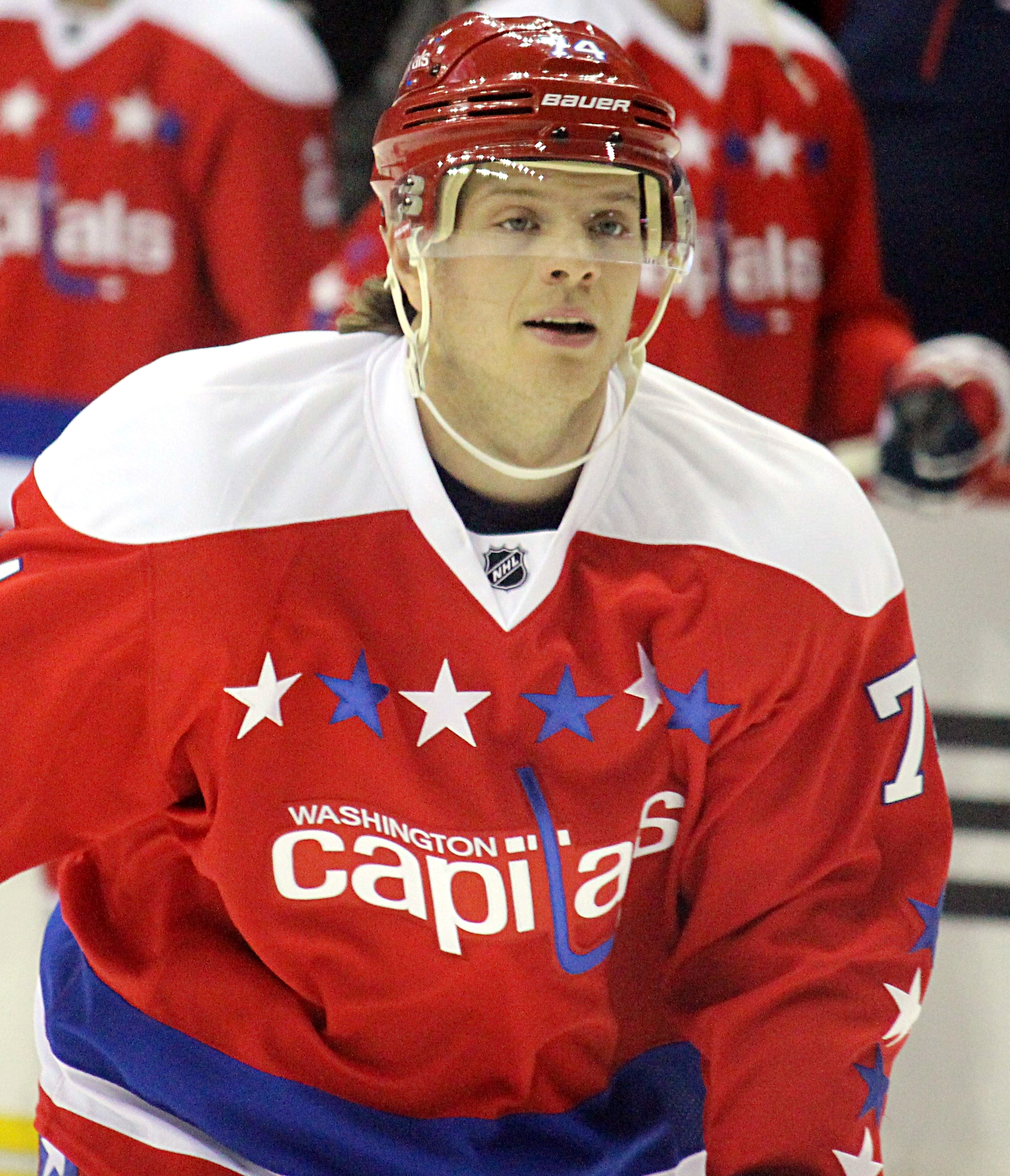 Washington Capitals defenseman John Carlson during a game against the Pittsburgh Penguins, Thursday, April 7, 2016 at Verizon Center in Washington, D.C.